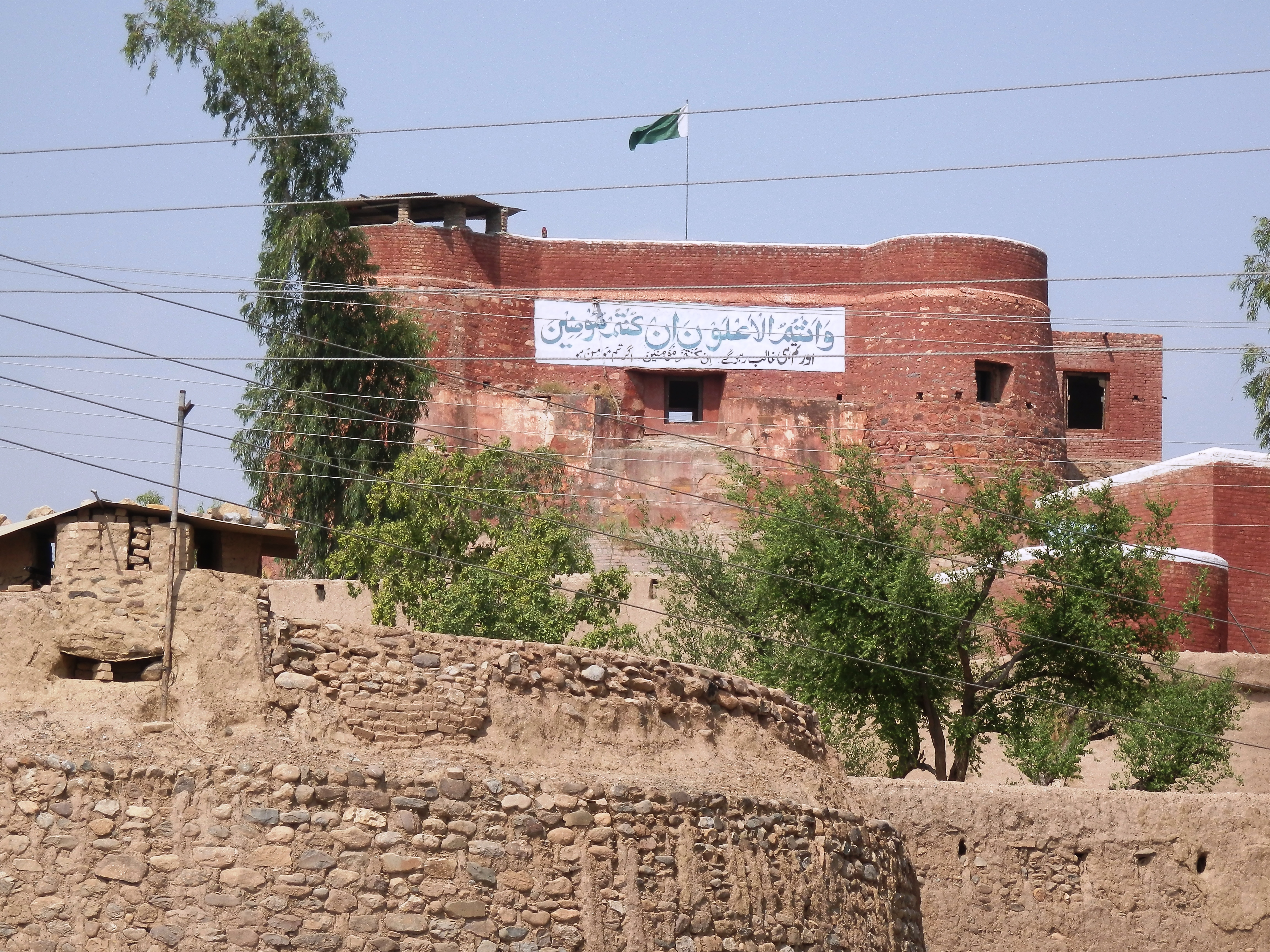 Jamrud Fort This is a photo of a monument in Pakistan identified as the FATA-3